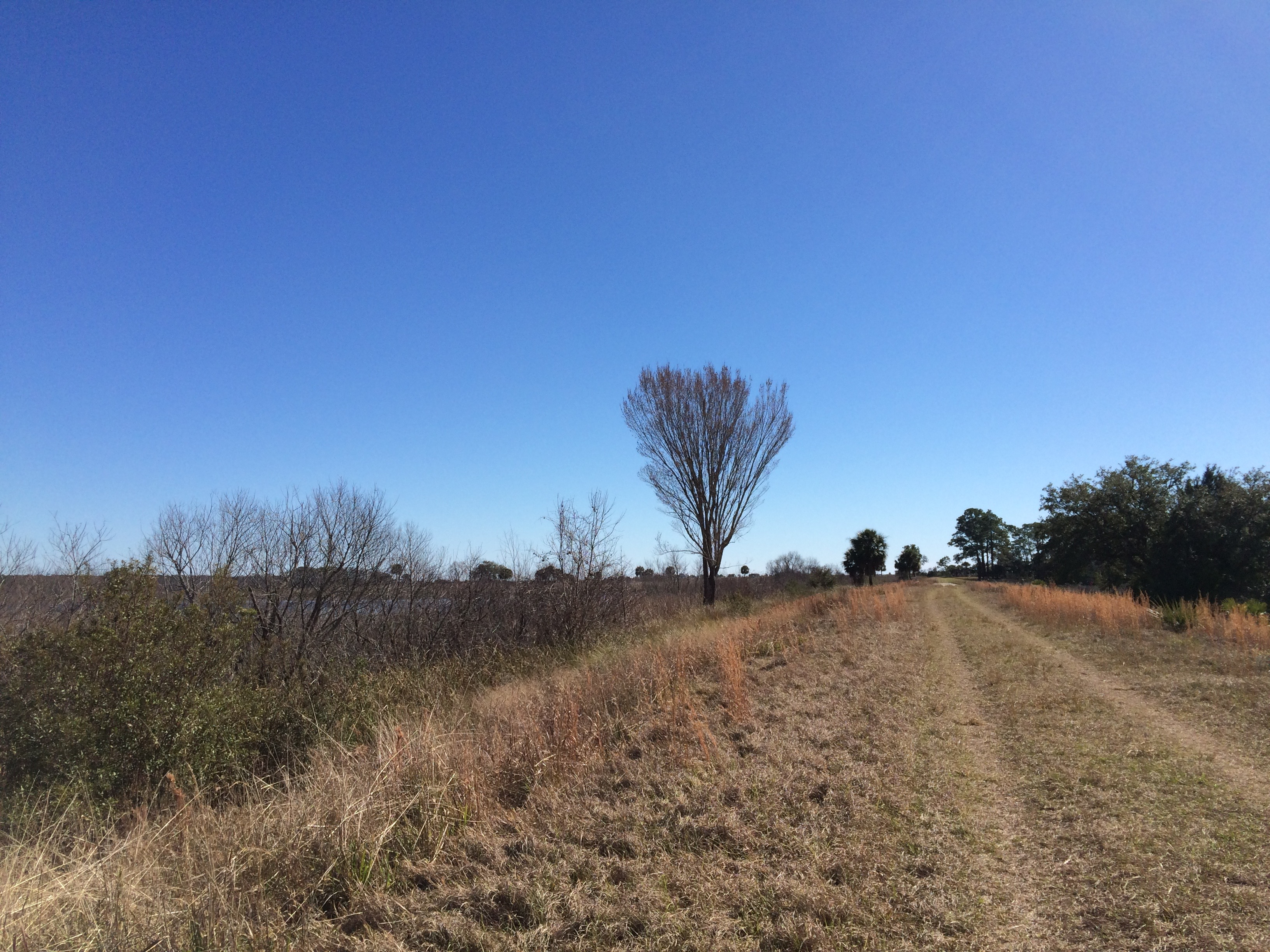 A hiking/cyclist trail within the Refuge